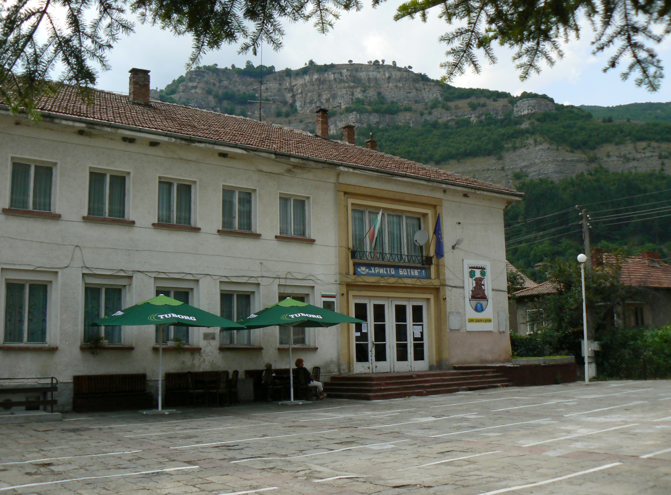 Community center "Hristo Botev" in village Tserovo, Sofia district, Bulgaria.